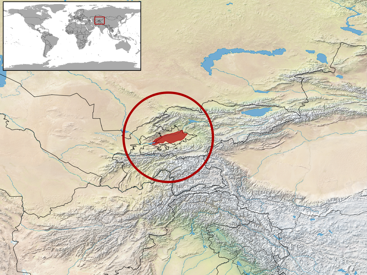 geographic distribution of Phrynocephalus strauchi (Native: Kyrgyzstan; Tajikistan; Uzbekistan)